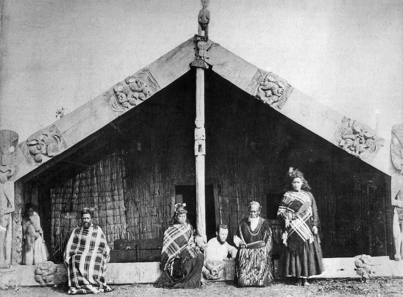 The meeting house Te Tokanganui-a-noho originally stood at Motakotako, Aotea Harbour, and was built and carved by Te Whanake for the Ngati Te Wehi tribe. The house was removed to Kawhia where it was burnt down about 1890. The people in the picture are from left to right: Te Aua Tauwhenua a Ngati Te Wehi Chief; Te Reme Tauira, who married John Ellis, a trader at Motakotako; Te Whareroa, chief of the Ngati Te Wehi; Te Pahi.